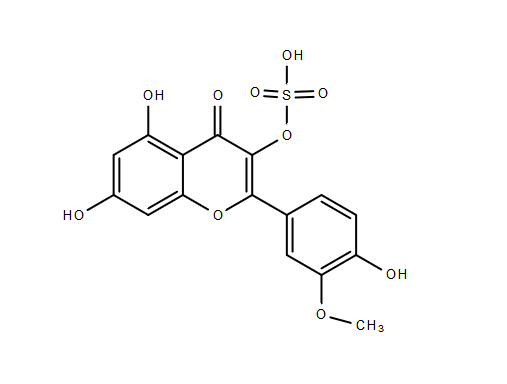 Skeletal structure of persicarin